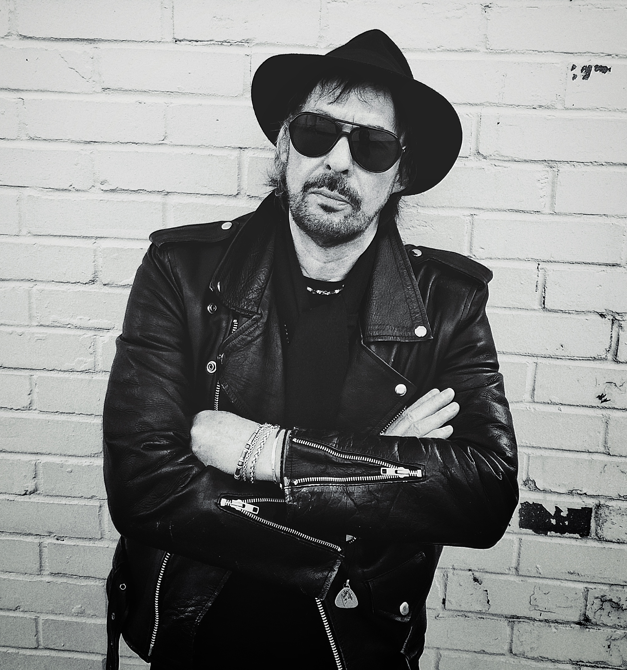 Nick Elliott rock art photographer at Pinewood Studios in 2015